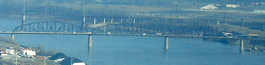 View of the McKinley Bridge in St. Louis from the Gateway Arch. The Merchants Bridge is upstream in the background. December 2006 - Image by Georgi Petrov